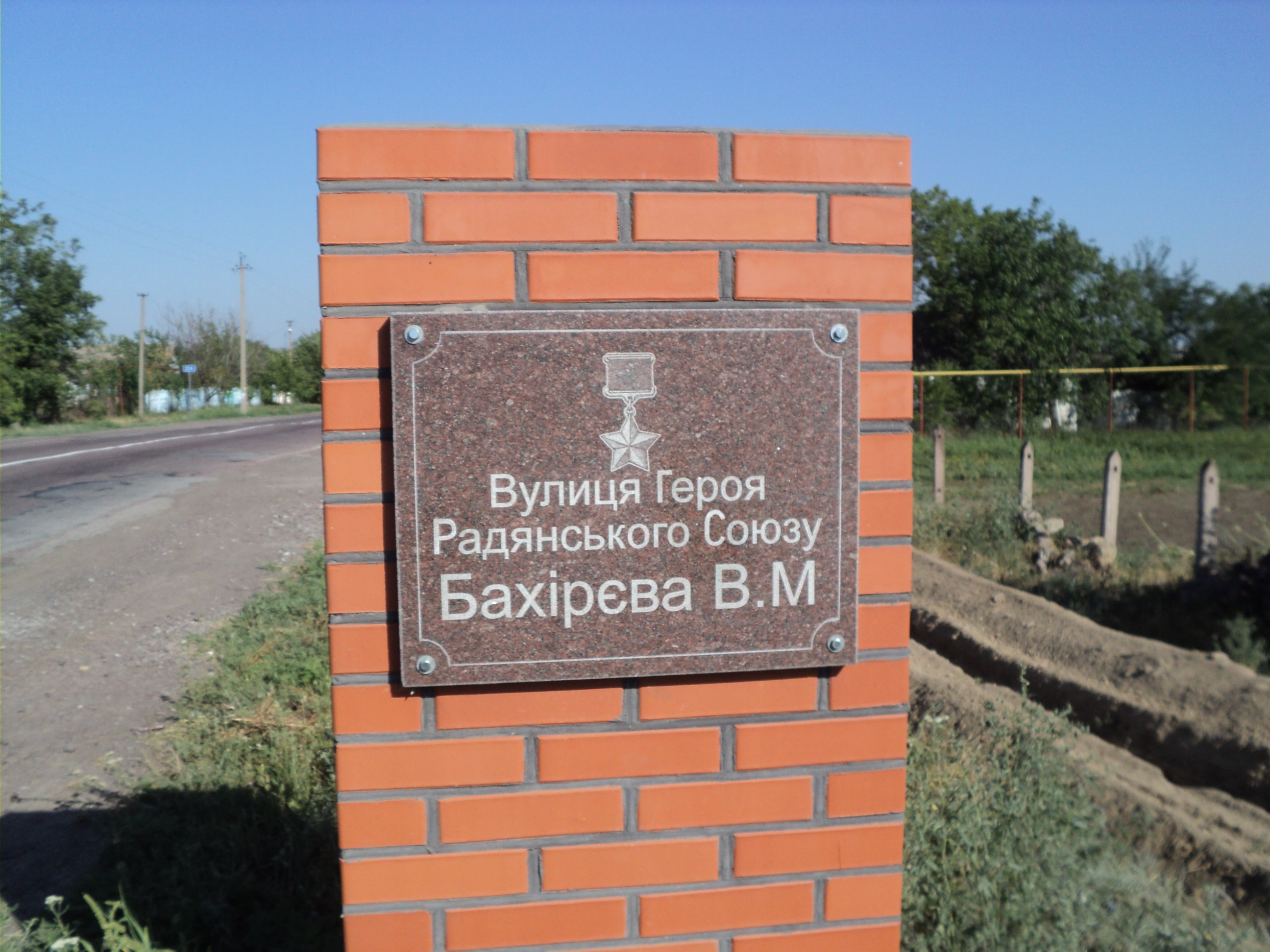 The street of Bakhirev in Lenins'ke